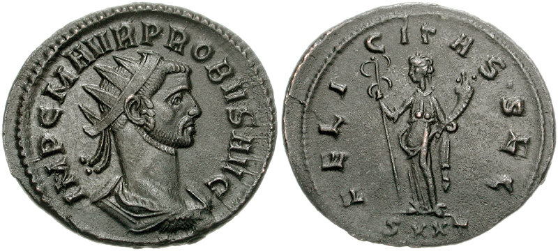 Probus. AD 276-282. Antoninianus (23mm, 3.57 g, 12h). Ticinum mint, 2nd officina. 2nd emission, AD 276. IMP C M AUR PROBUS AUG, Radiate, draped, and cuirassed bust right FELICITAS [...], Felicitas standing left, holding cornucopia and caduceus; SXXT. RIC V 359; Pink VI/1, p. 60.